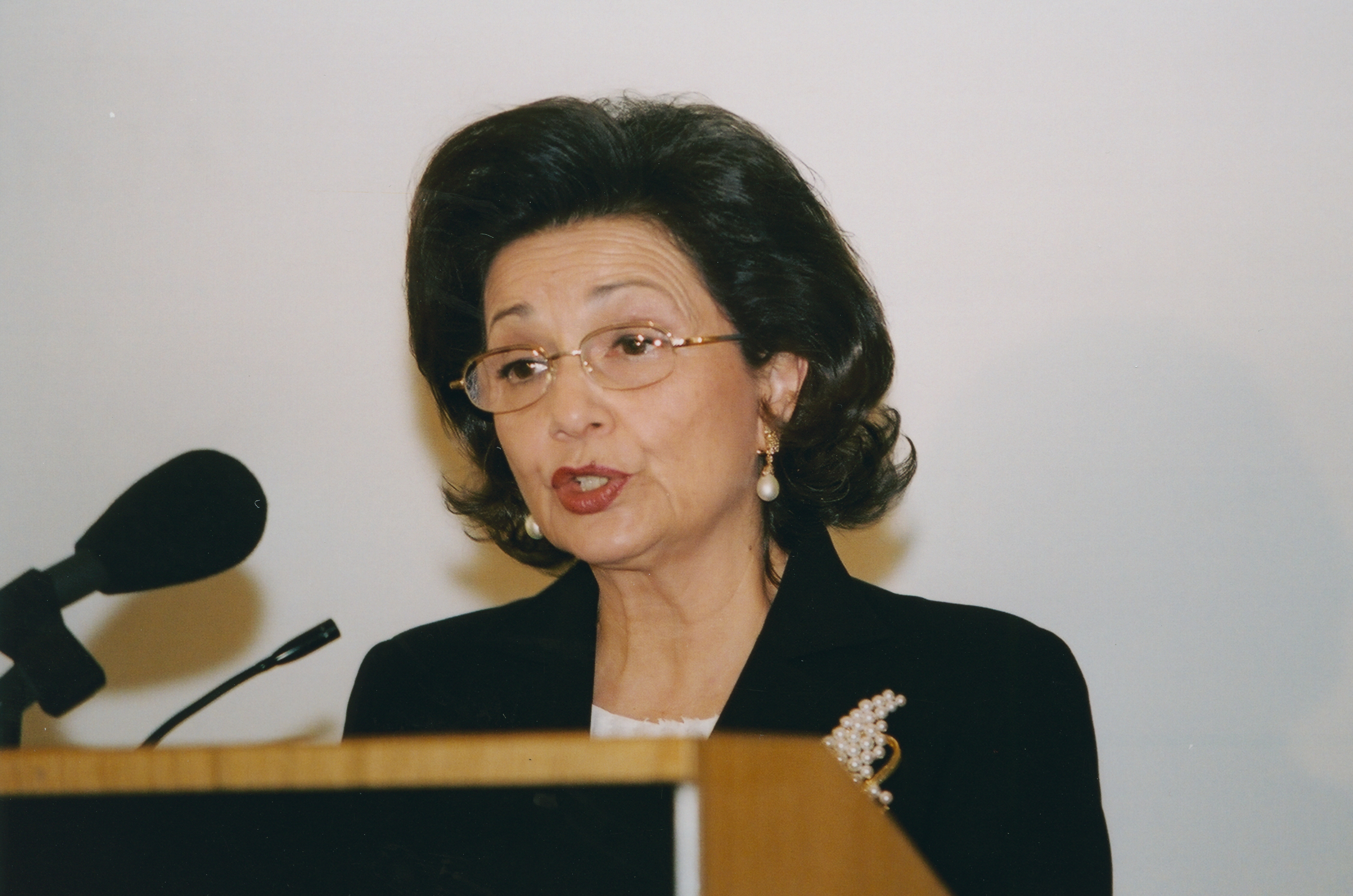 Her Excellency Mrs Suzanne Mubarak ,First Lady of the Arab Republic of Egypt giving a lecture at LSe 'Egyptian Women: major steps on the road to development' 7 May 2003 IMAGELIBRARY/834 Persistent URL